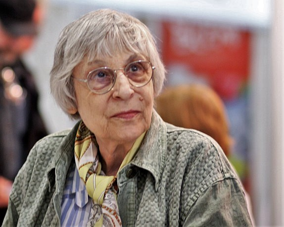 Yunna Morits, Soviet and Russian Poet